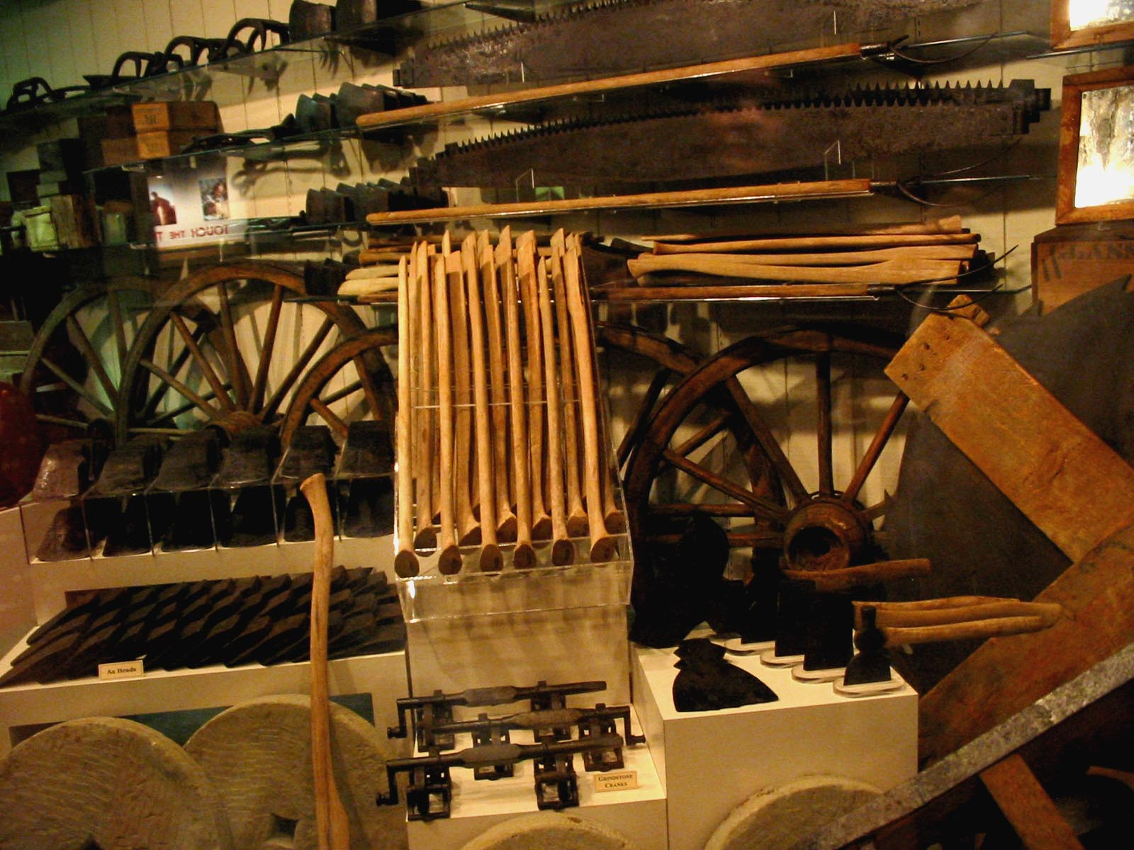 Wooden Supplies rescued from the Arabia Steamboat.